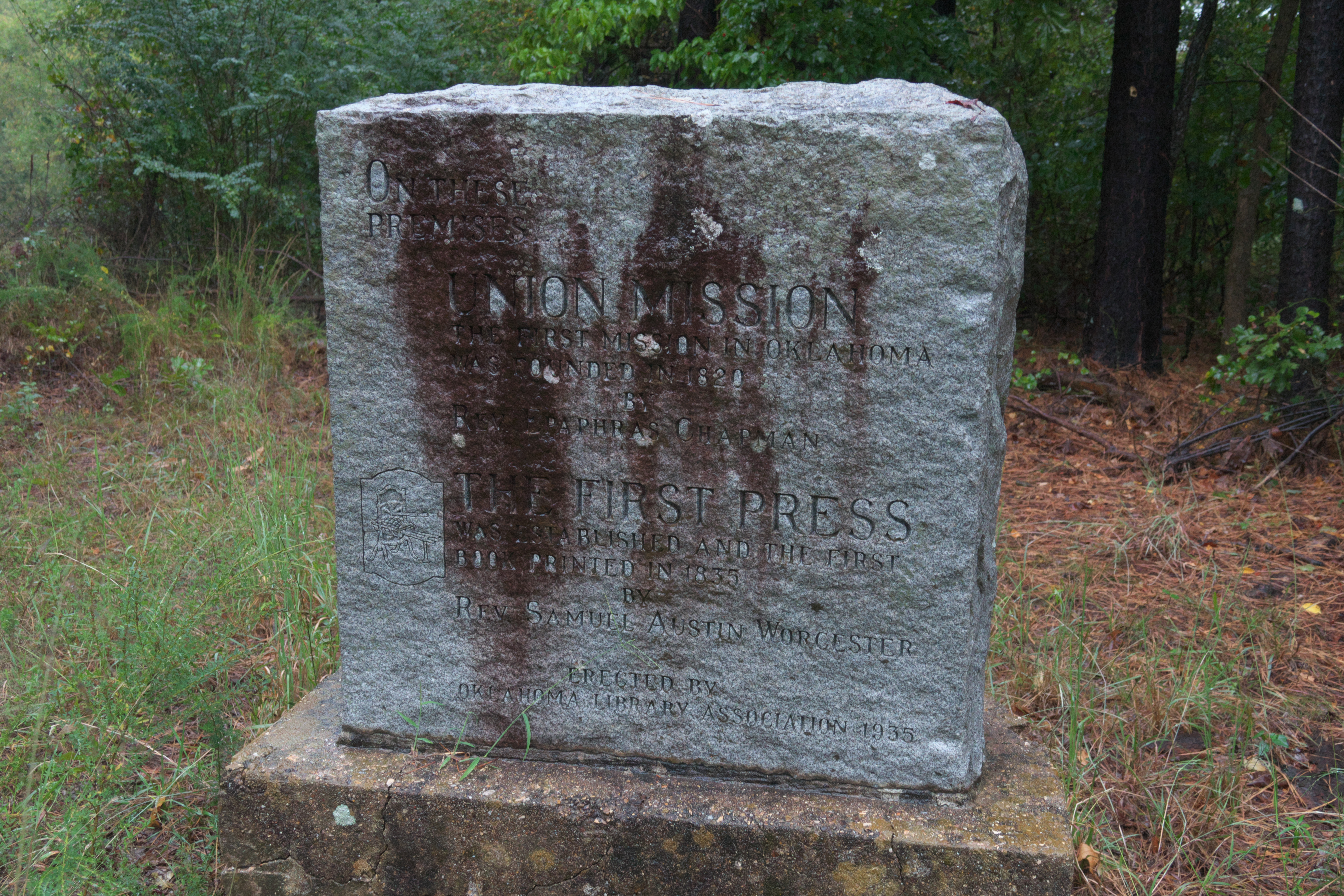 Monument at the location of Union Mission, near Mazie, Mayes County, Oklahoma. It was erected in 1935. Union Mission was established in 1820.